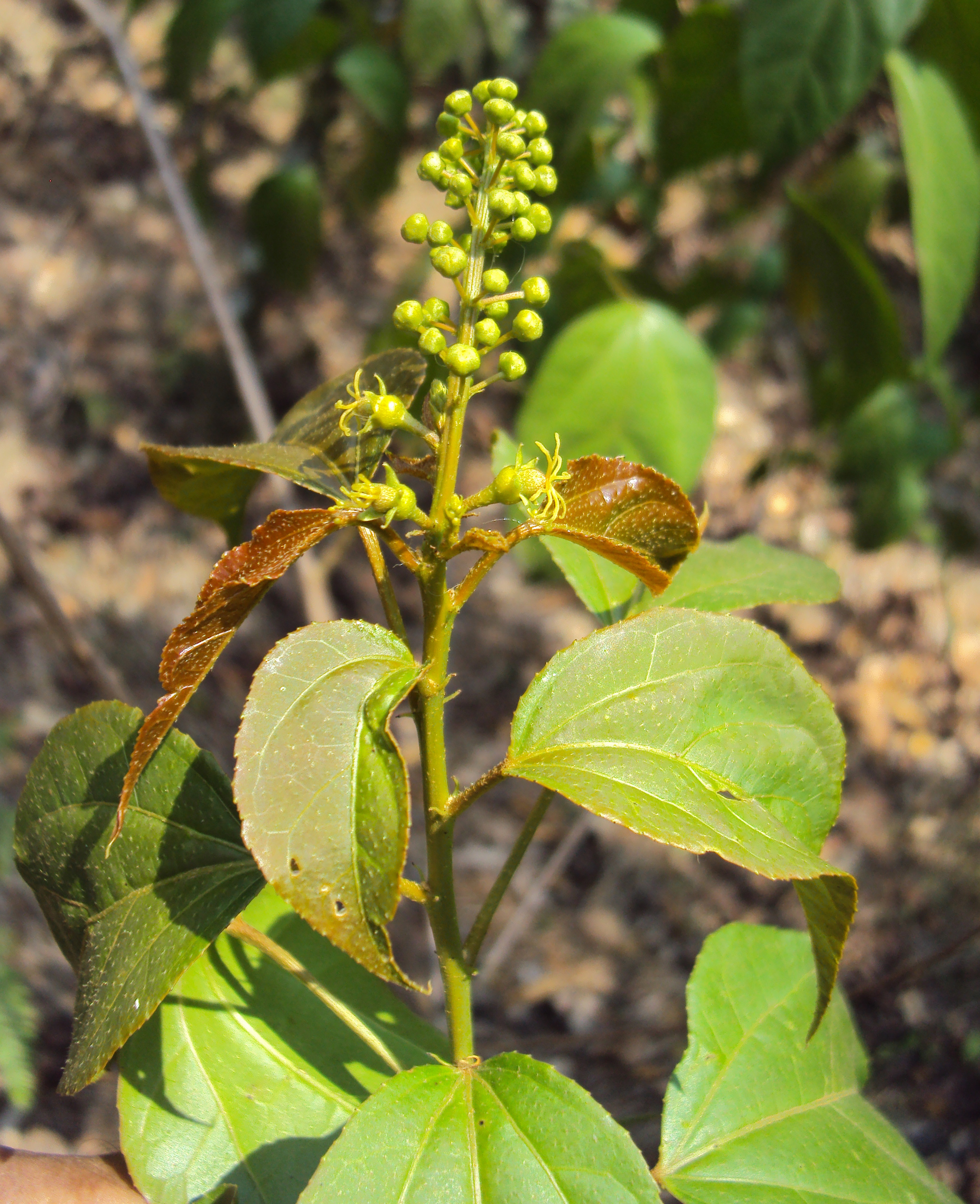 Croton tiglium